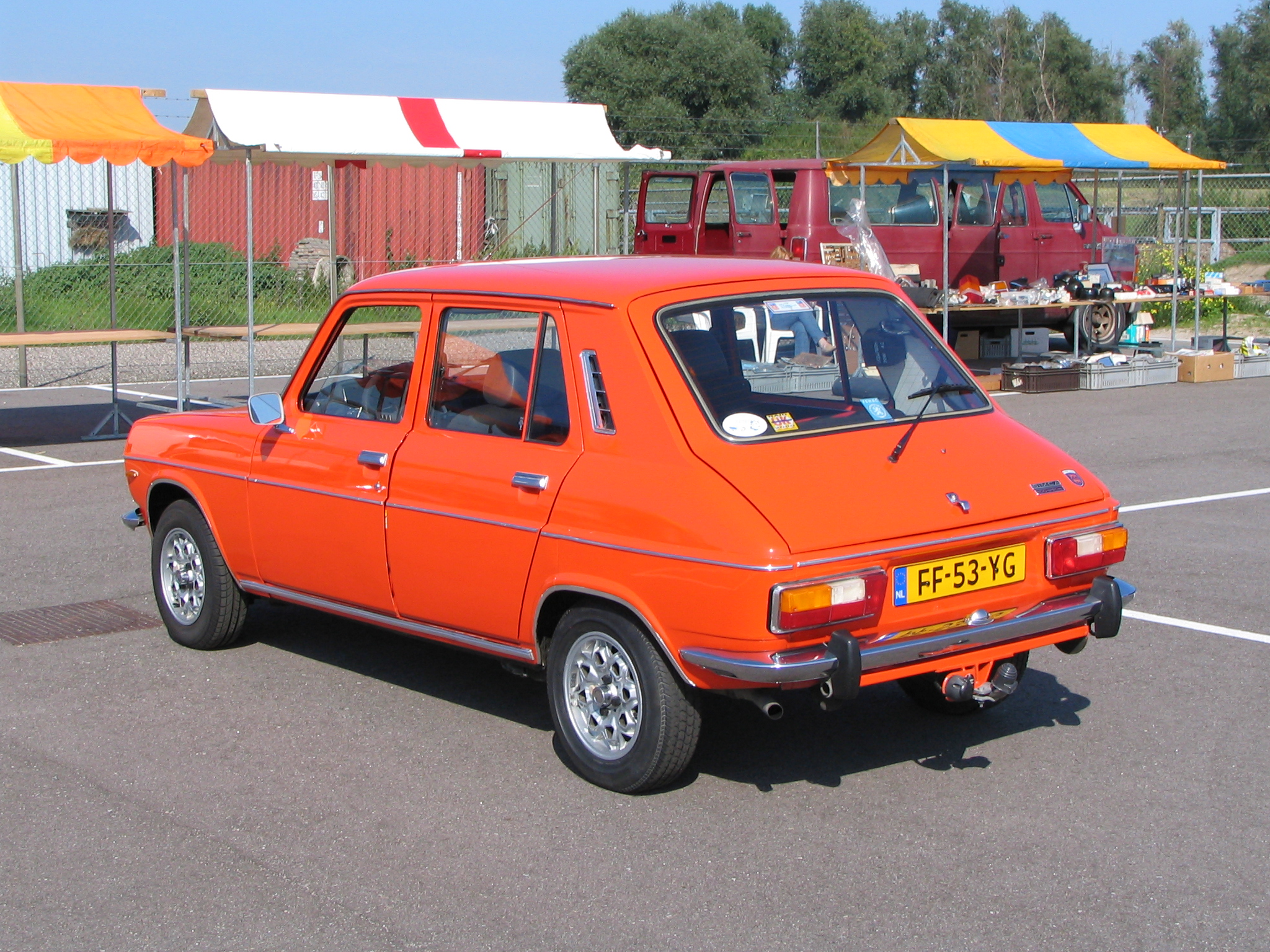 1979 Simca 1100 Special in pristine condition, Simca & Matra Sports Club meeting, 10/09/06